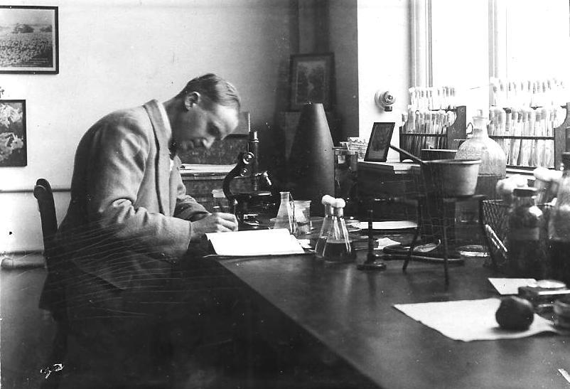 Lawrence Ogilvie, Bermuda 1927. This picture is owned by me the son of my deceased father Lawrence Ogilvie.